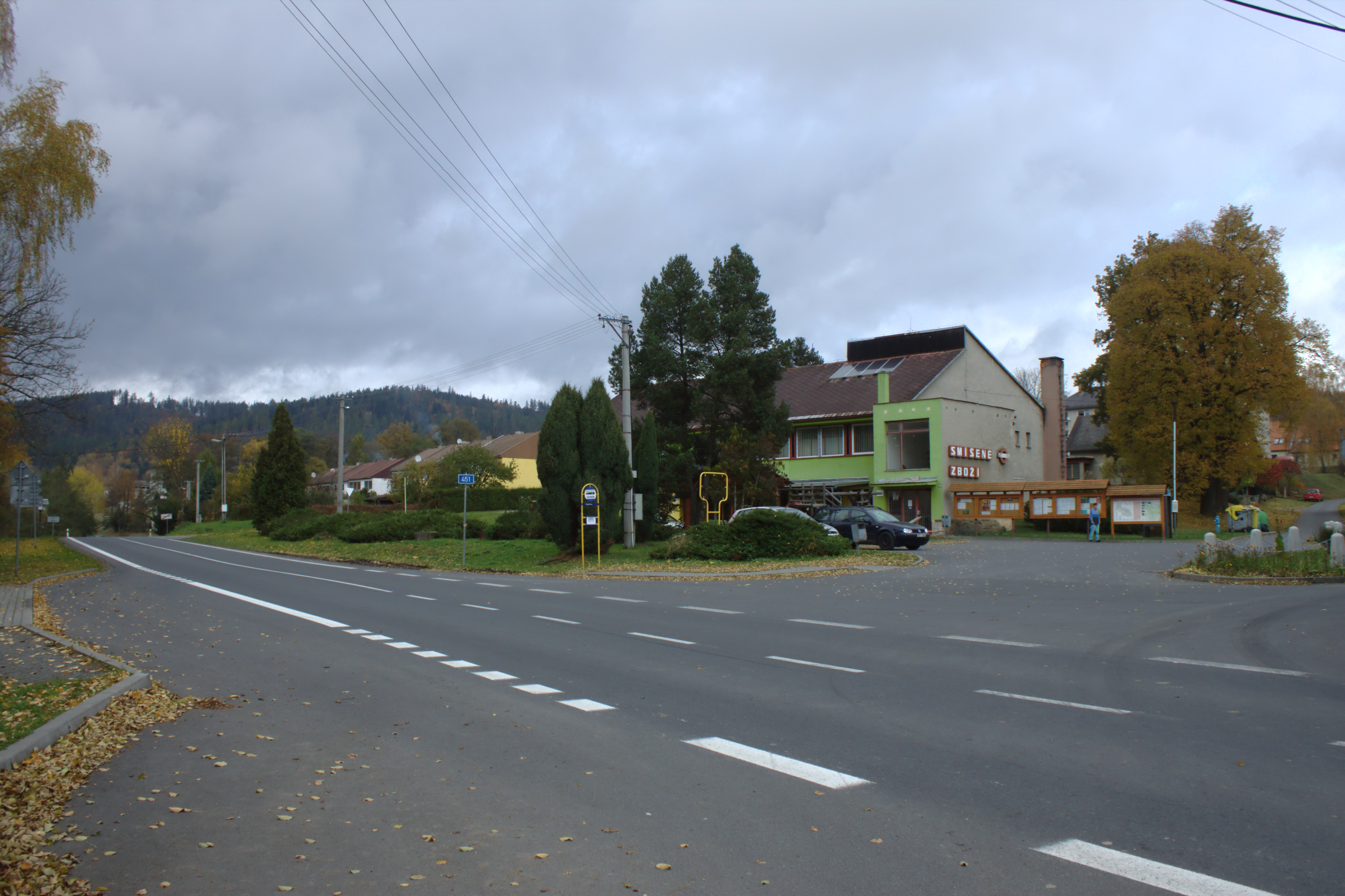 Main road and a shop in Široká Niva, Moravian-Silesian Region, CZ